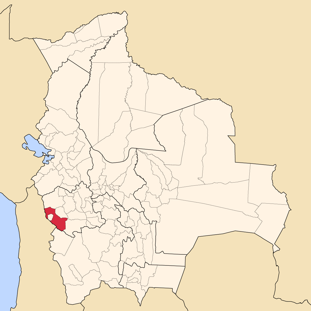 Map of Bolivia showing Atahuallpa province, Oruro